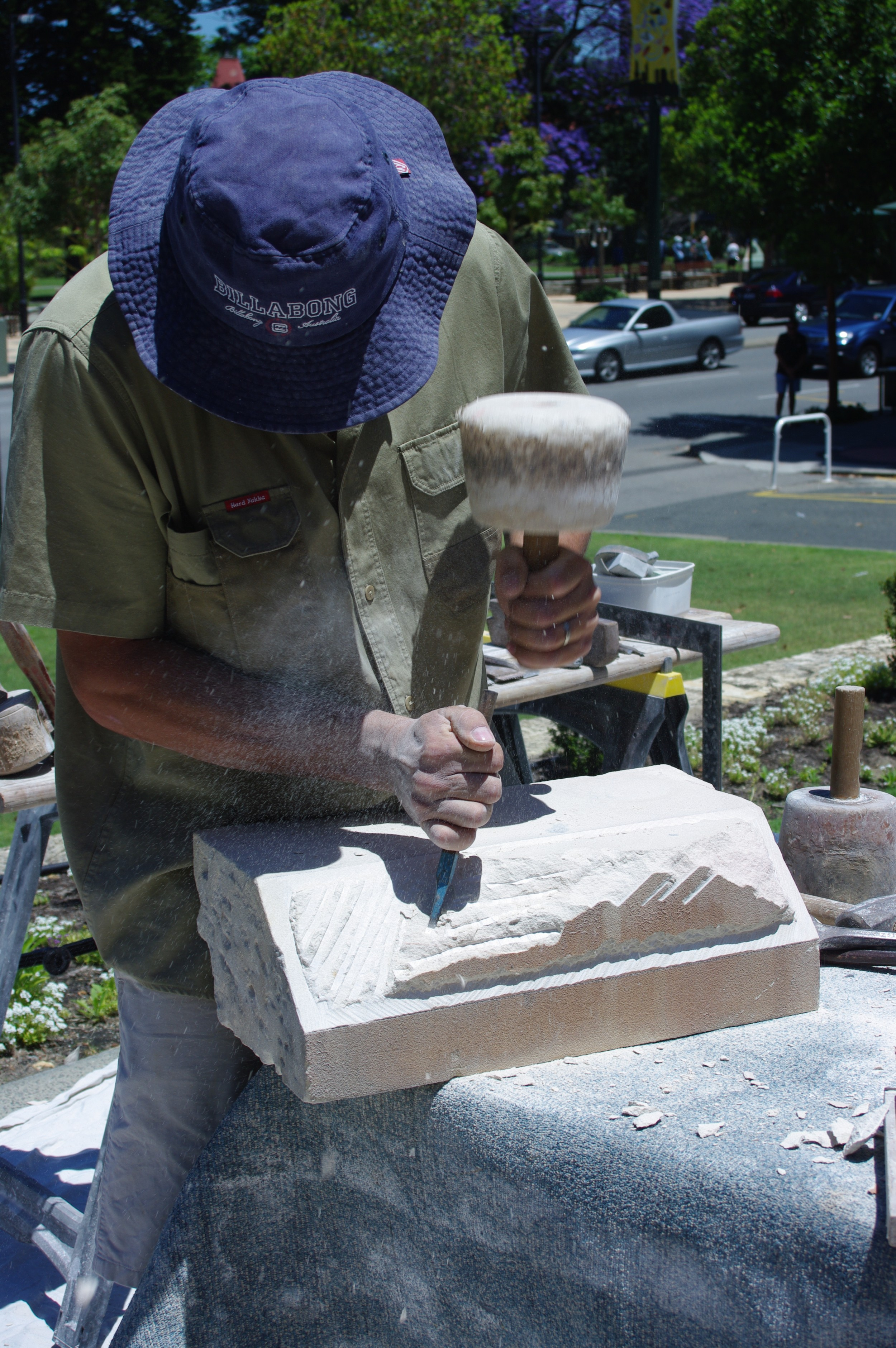 Saint George's Cathedral, Perth Stone Mason demonstrating the techniques used to repair/restore the cathederal in 2007/2008